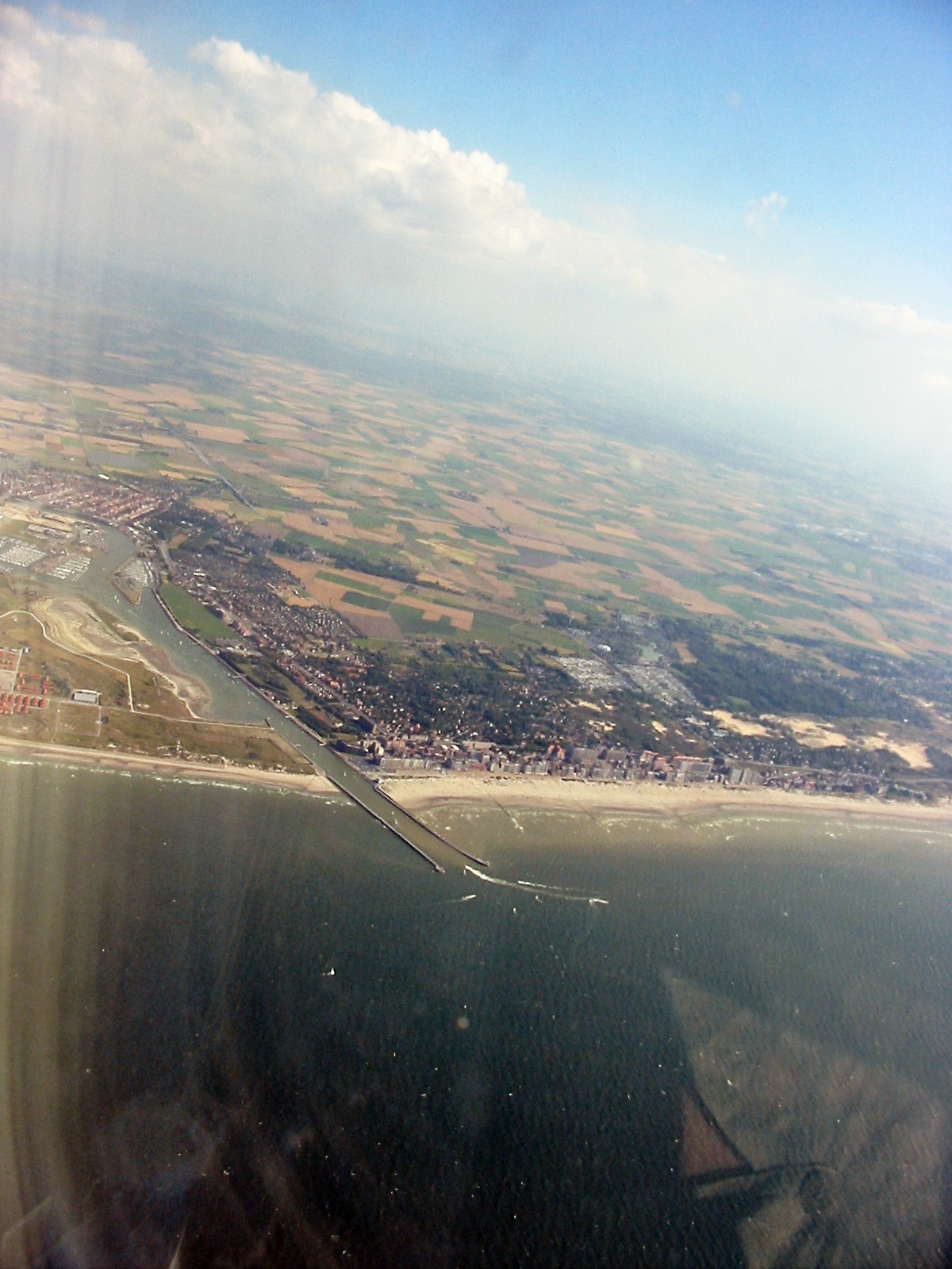 Mouth of the Yser, at Nieuwpoort, Belgium. Nieuwpoort from the air, taken by myself July 2003.